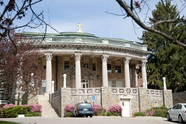 College Hall located at Regis College.